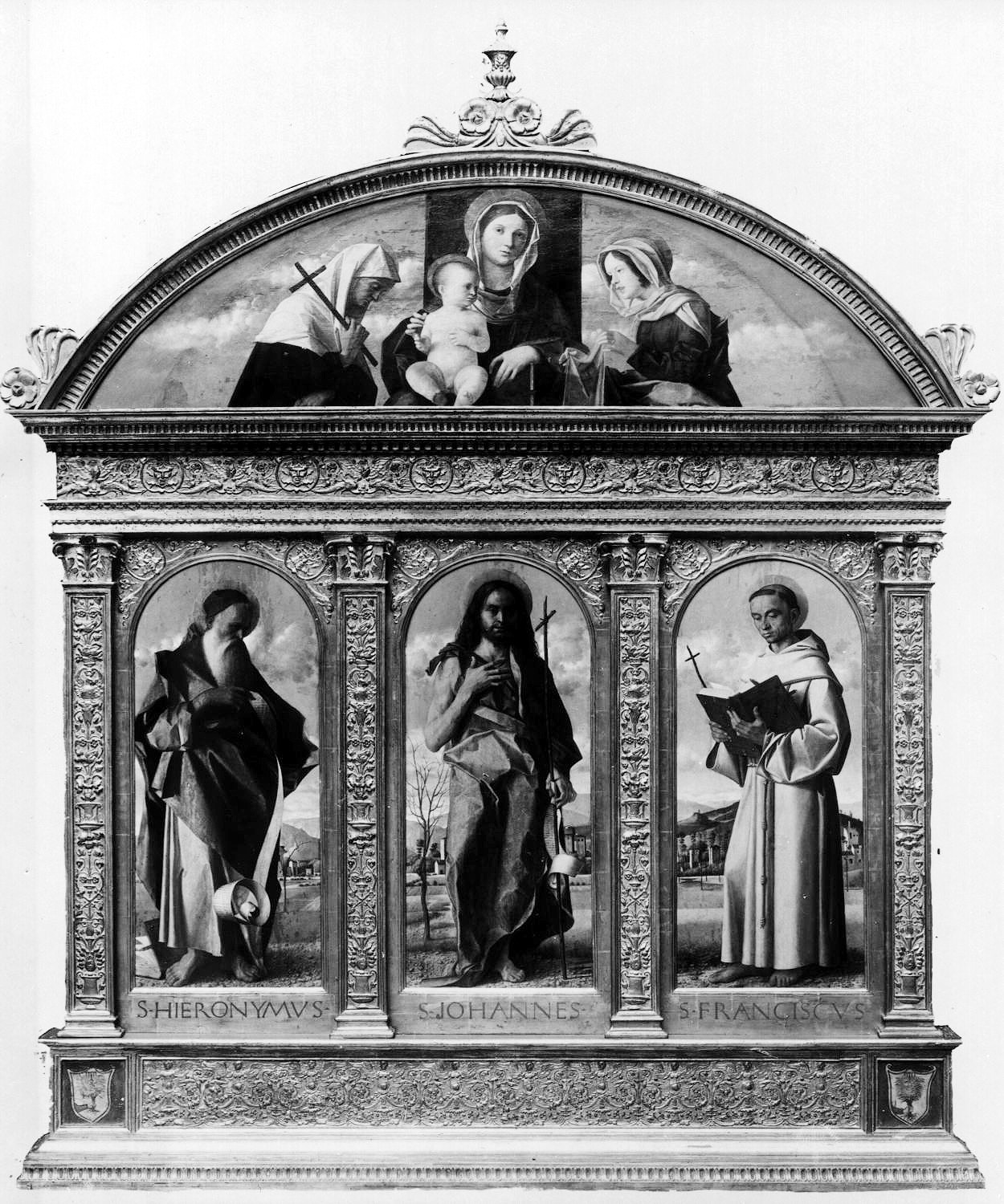 'Altar panel with three saints', by Giovanni Bellini, ca. 1490. The painting was destroyed or disappeared in Berlin in May 1945, in the Friedrichshain flak tower fire. - Oil painting on wood